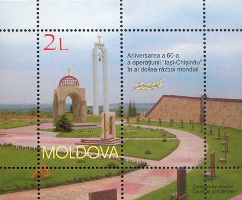 Stamp of Moldova